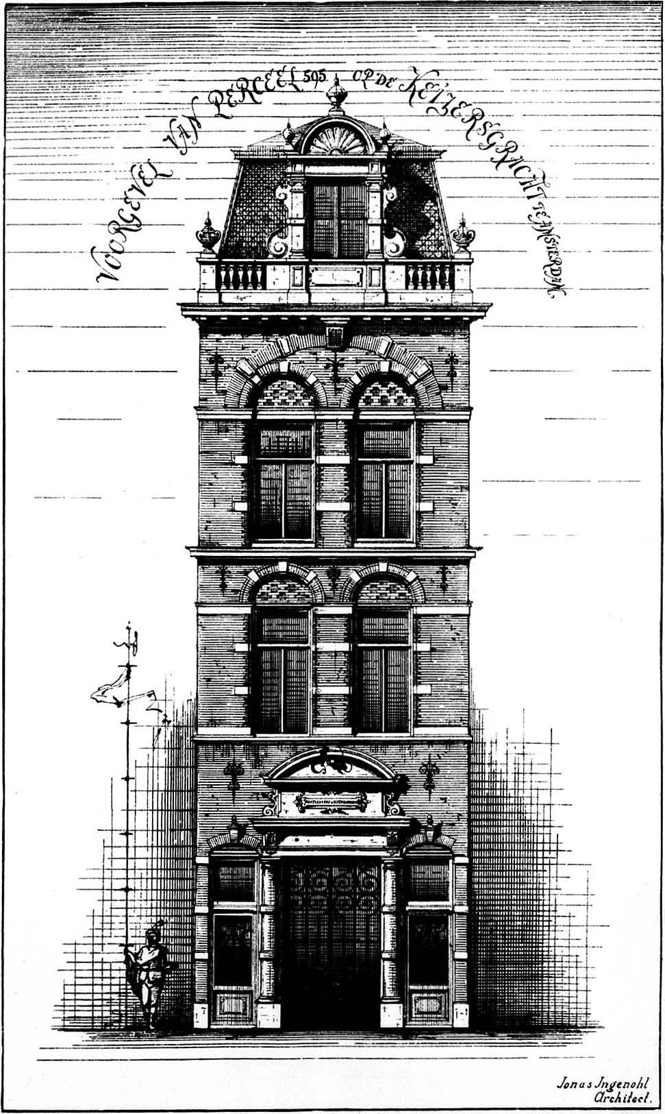 House, Keizersgracht 595, Amsterdam, front elevation.